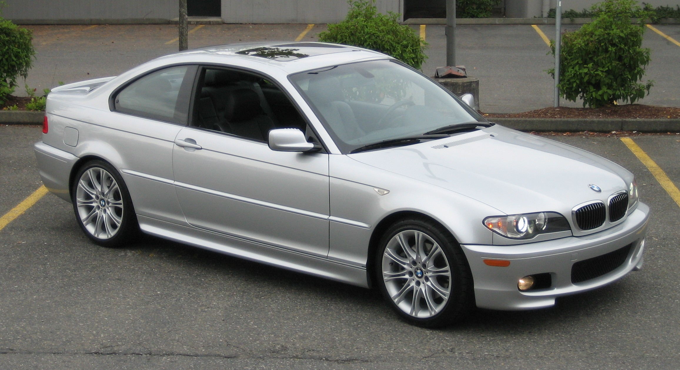 2005 BMW 330Ci ZHP in Titanium Silver with 135 M rims